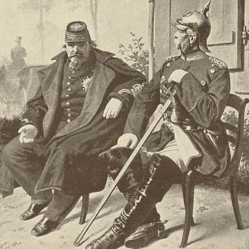 Otto von Bismarck and Napoleon III after the Battle of Sedan, painted in 1878 by Wilhelm Camphausen (1815-1885), an historical and battle painter. --Auntieruth55 (talk) 02:51, 6 July 2009 (UTC)